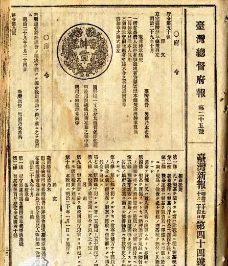 1896 October Gazette of the Governor — General of Taiwan